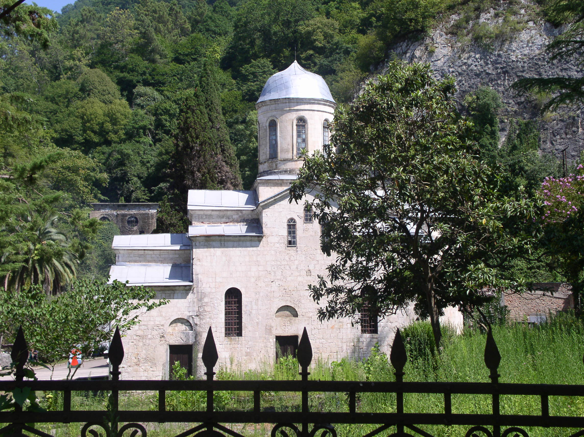 St. Simon the Canaanite temple in New Athos, Abkhazia